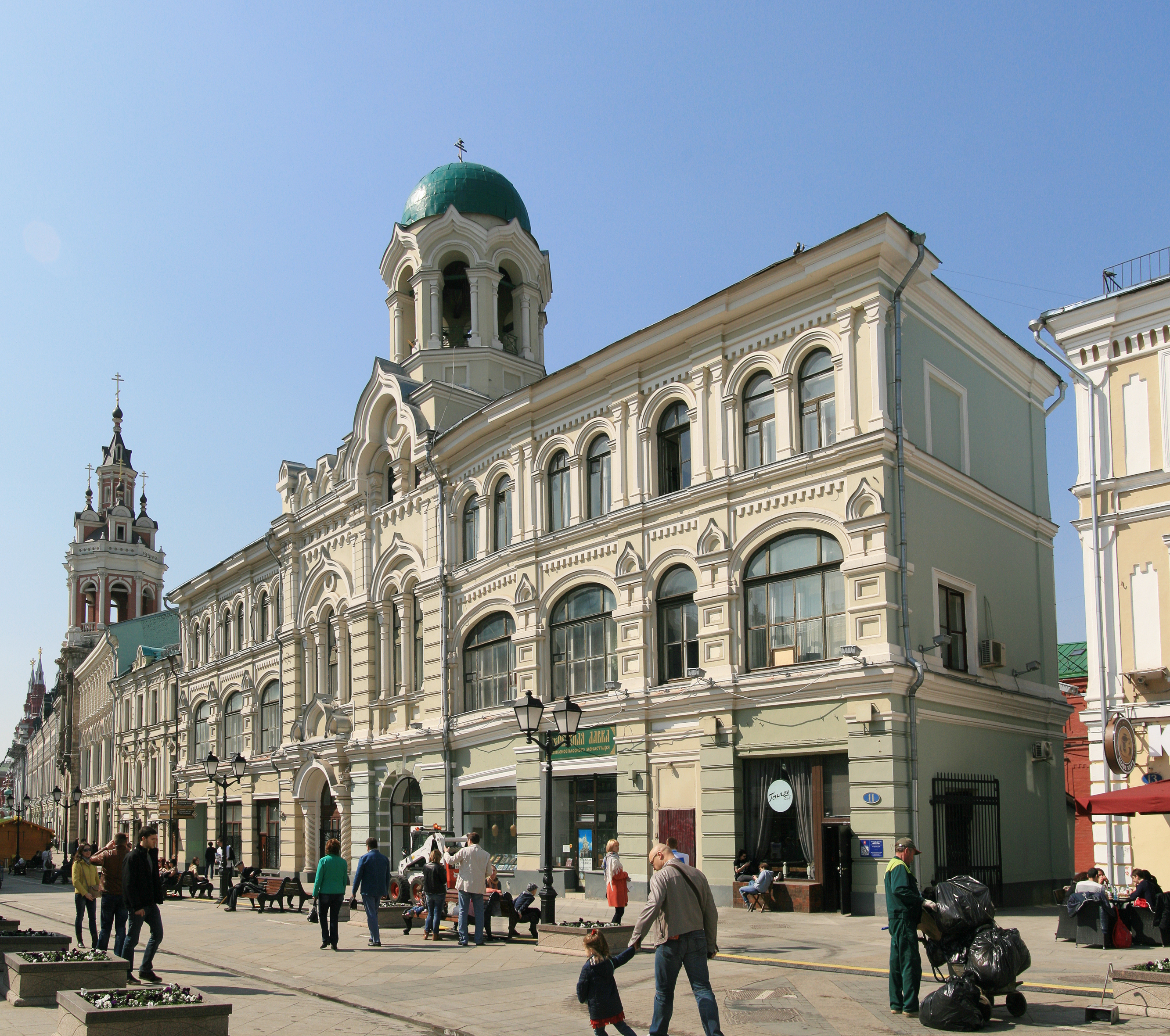 Nikolsky monastery, Nikolskaya street 11-13, Moscow